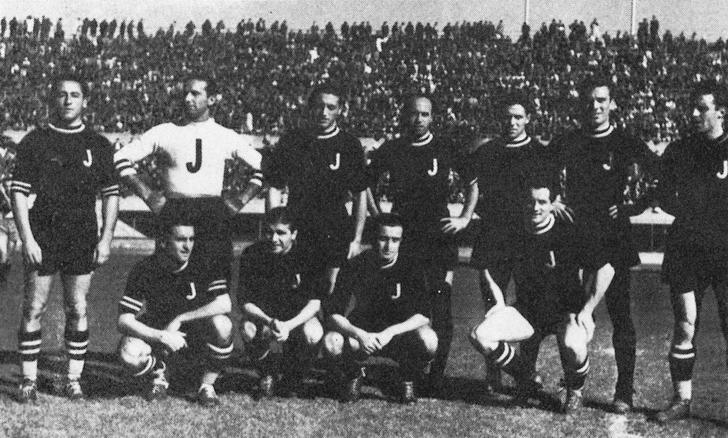 Turin (Italy), "Benito Mussolini" Municipal Stadium, October 12, 1941. The line-up of Juventus took to the pitch prior the victorius match versus Pro Patria et Libertate U.S.B. (5-0), round of 32 of the 1941–42 Coppa Italia.